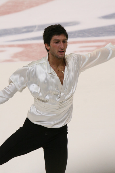 Evan Lysacek (USA) at the 2007 Skate America.